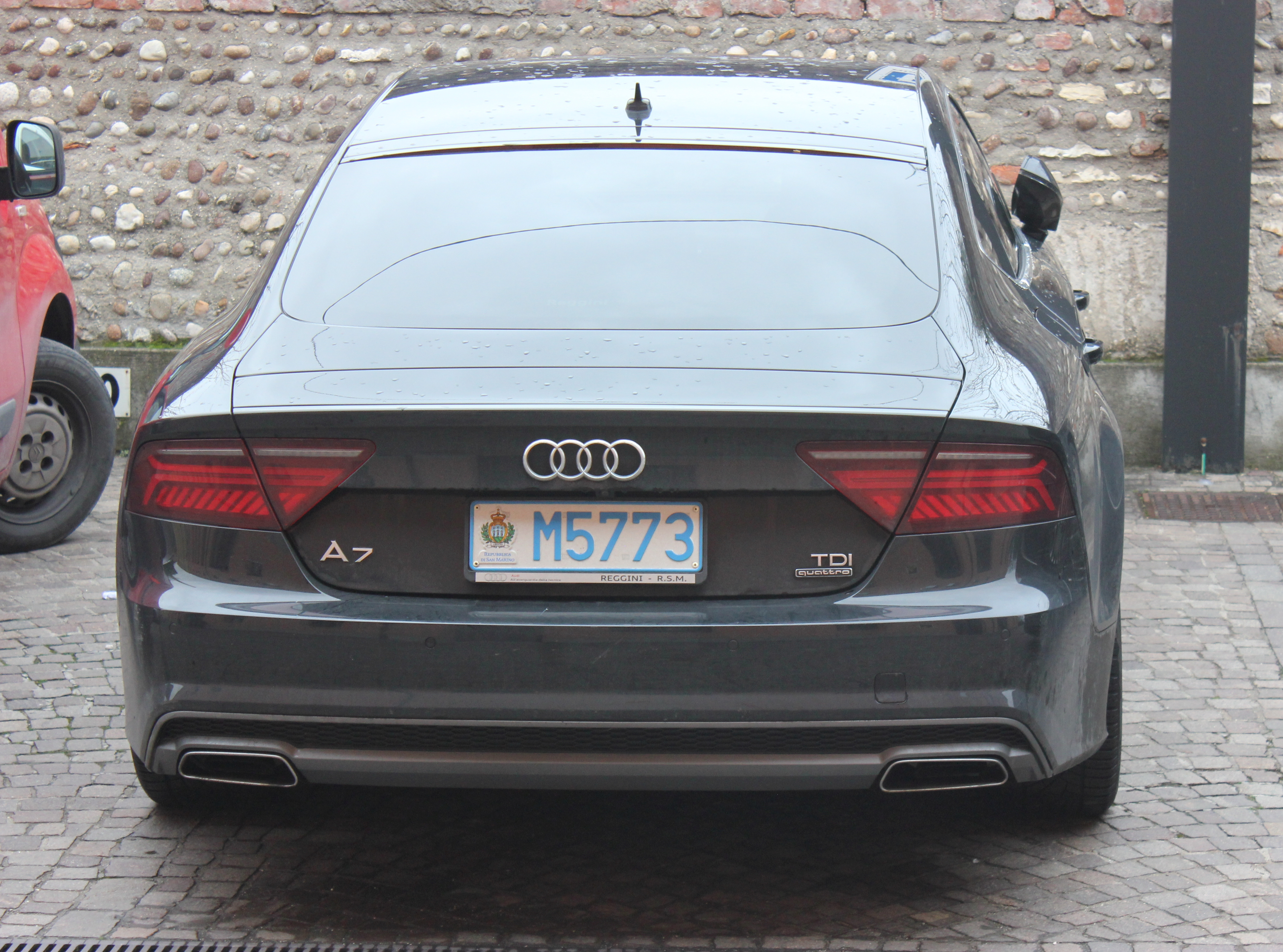 Cittadella - Audi A7